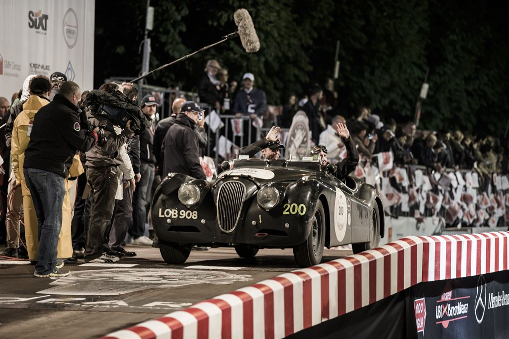 Jaguar has curated a unique team of drivers for its Jaguar Heritage Racing entry into this year's Mille Miglia classic car tour.